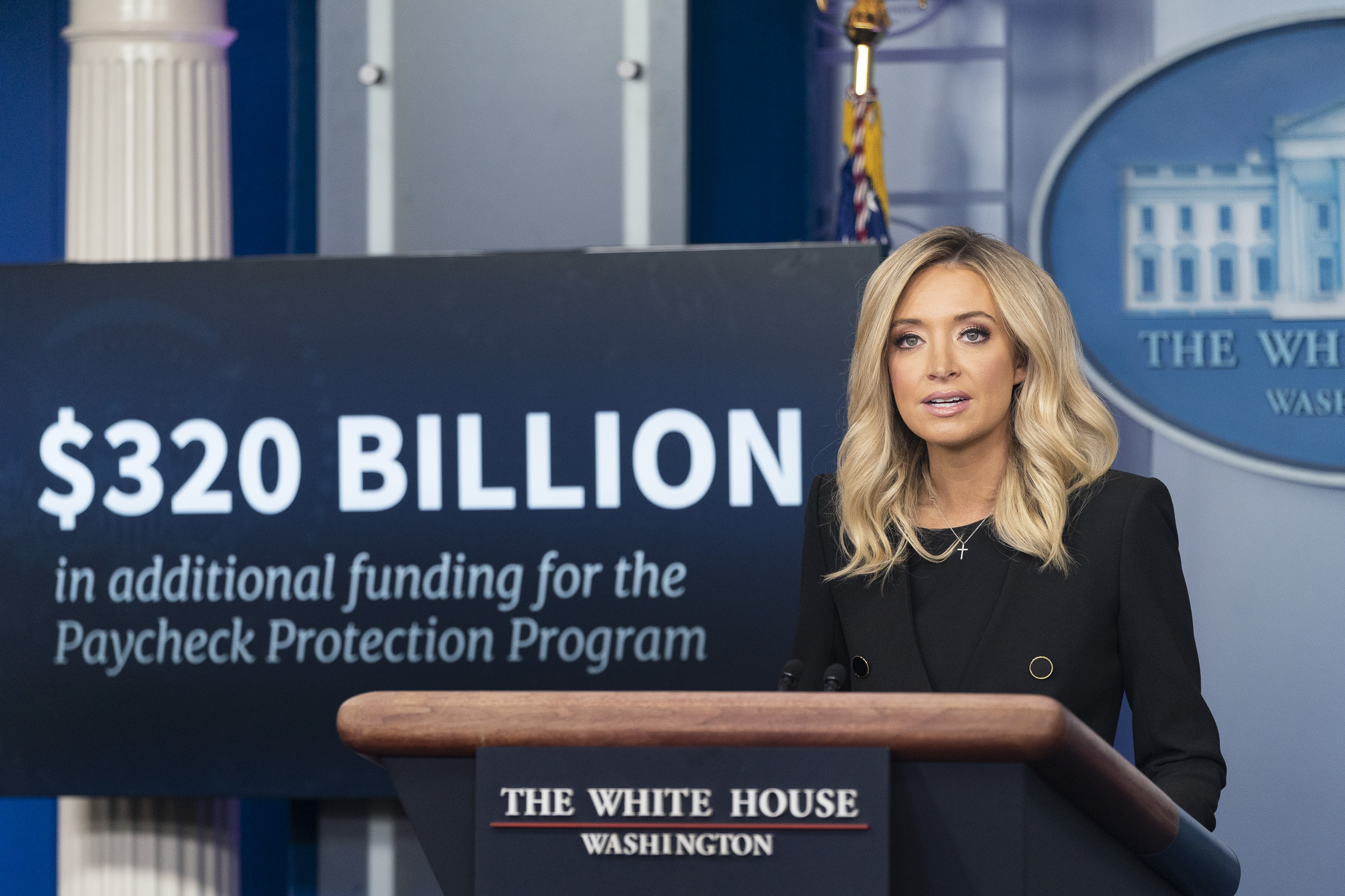 White House Press Secretary Kayleigh McEnany addresses her remarks at a White House press briefing Friday, May 1, 2020, in the James S. Brady Press Briefing Room of the White House. (Official White House Photo by Joyce N. Boghosian)